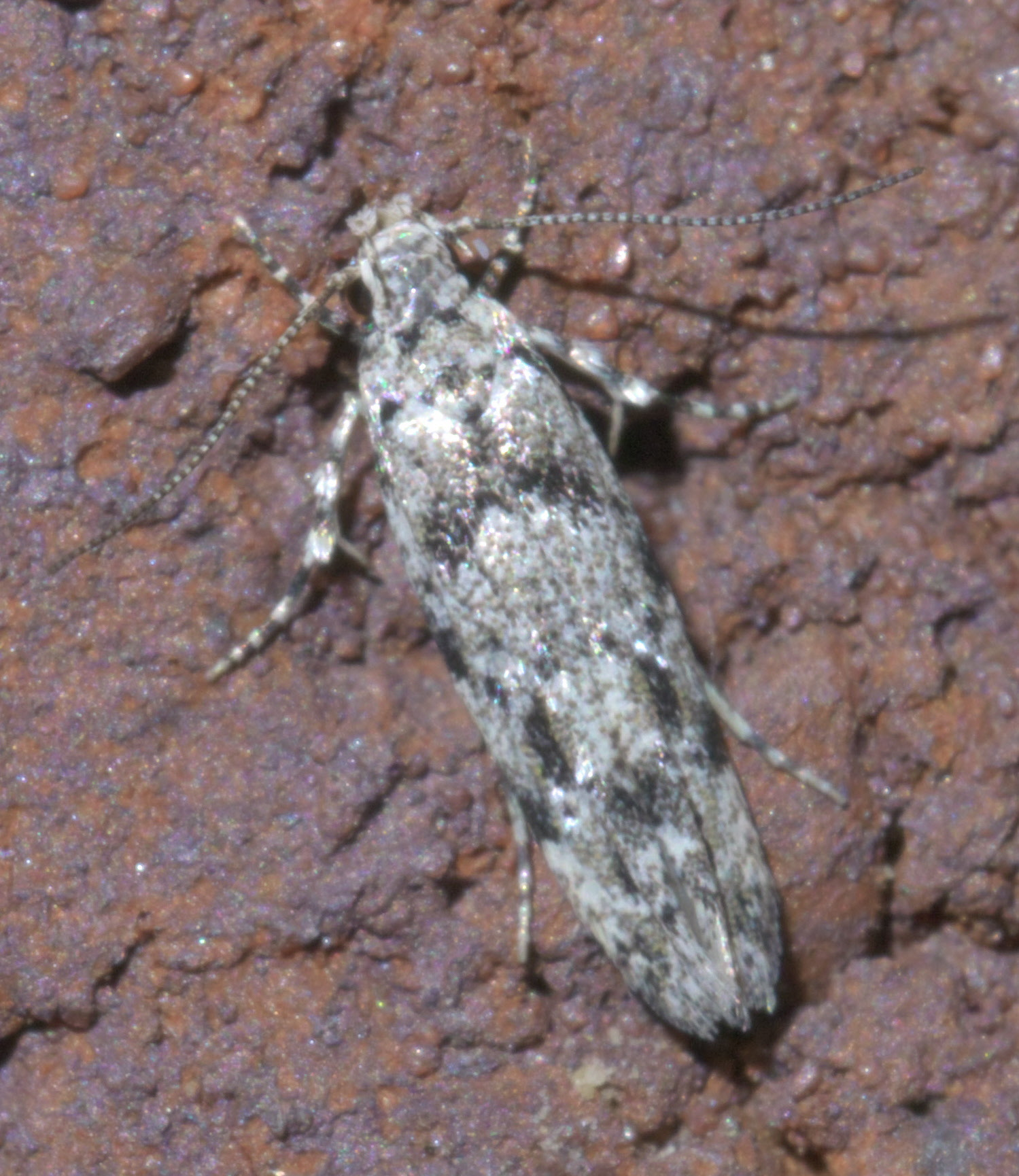 Sinoe chambersi, Hodges #1834.1, Size: 4.9 mm, ID Confidence: 90